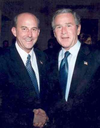 Rep. Louie Gohmert and President George W. Bush, the 43rd President of the United States of America.